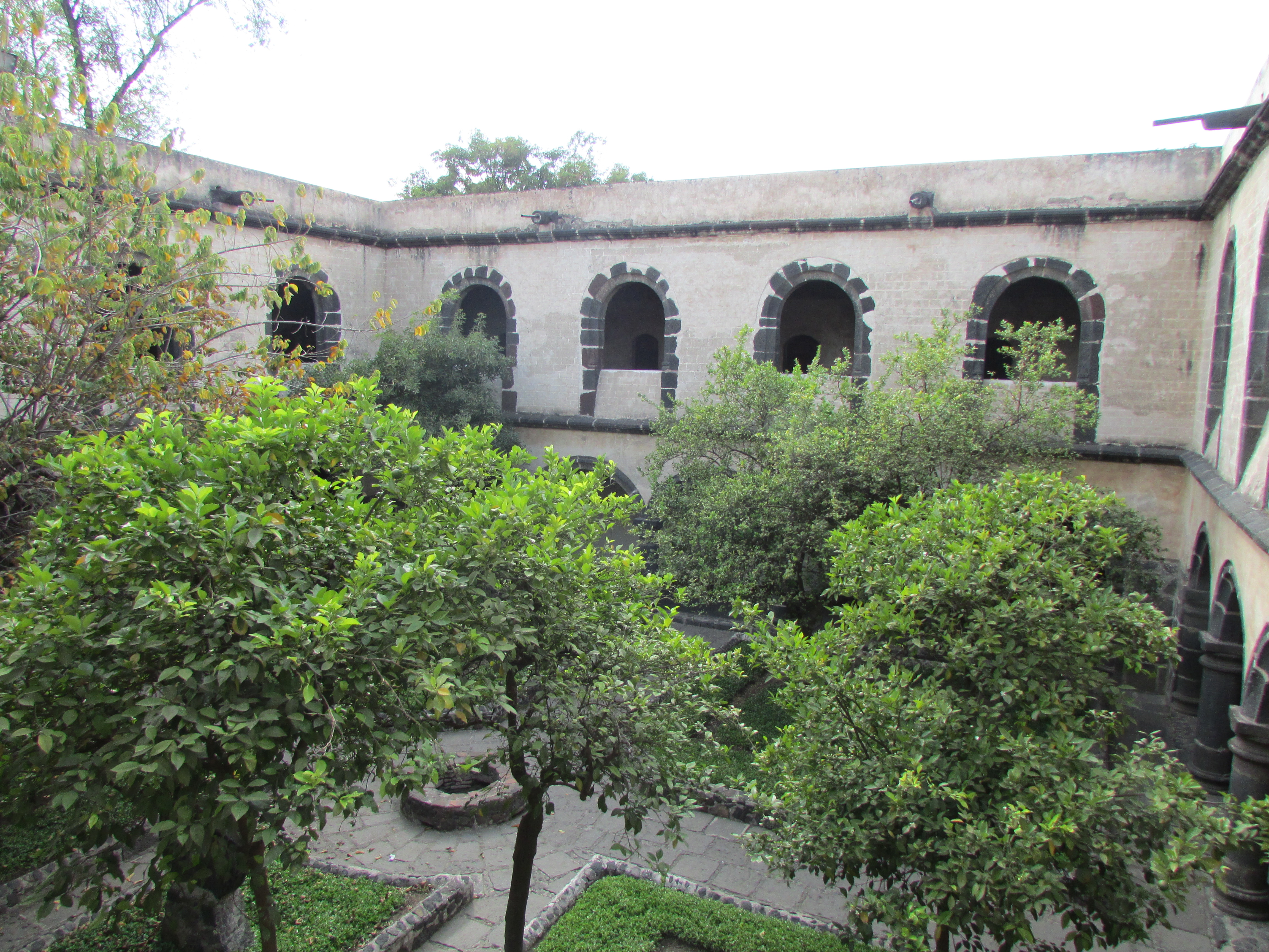 Central courtyard and patio of the San Juan Evangelista ex convent cloisters — at Culhuacan.